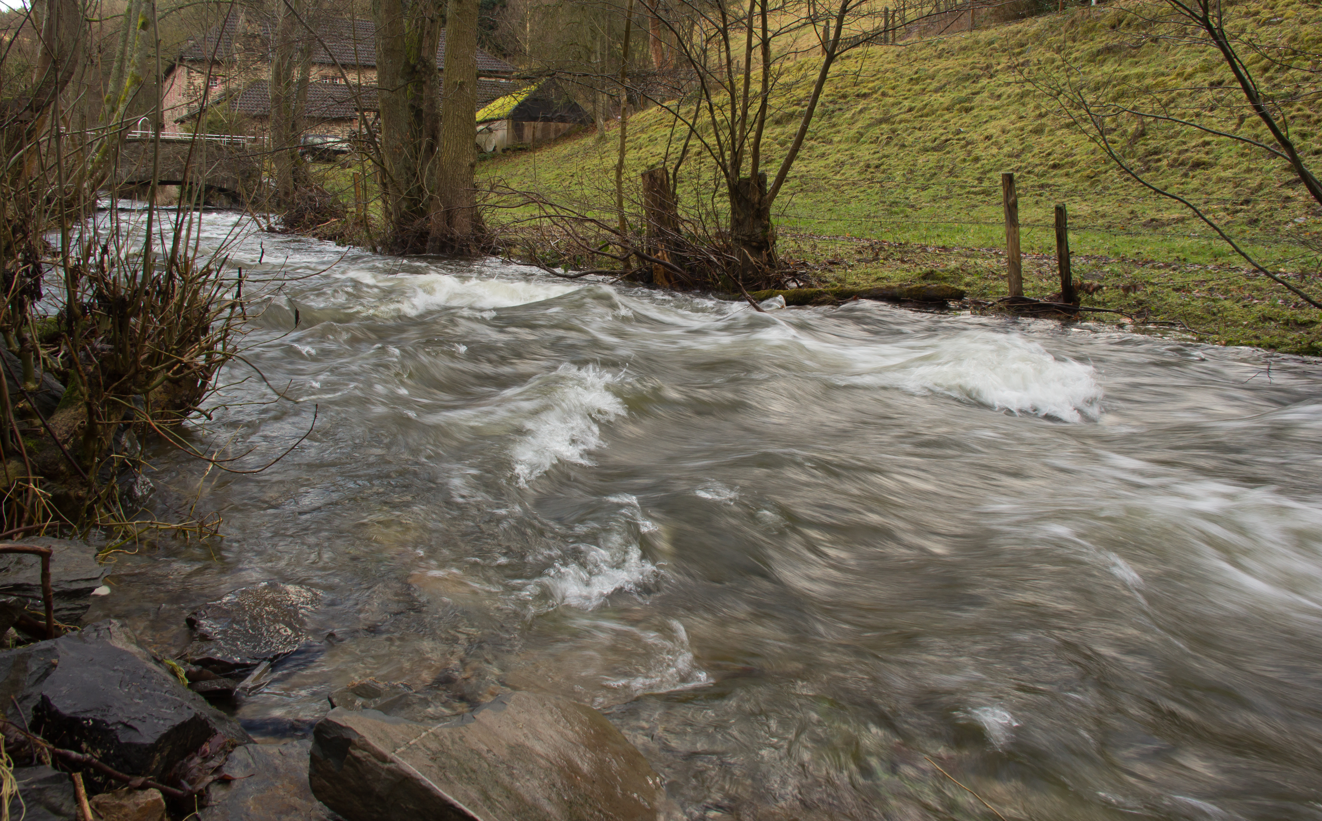 River Kall in Simonskall (Hürtgenwald), Eifel, North Rhine-Westphalia, Germany